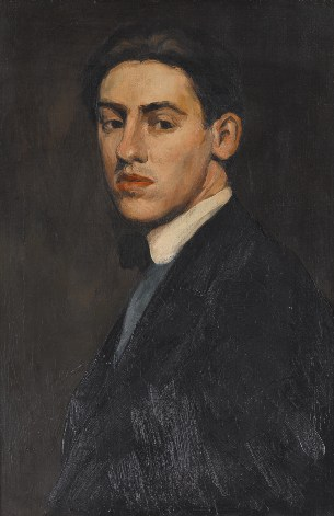 Charles Demuth: Self-Portrait, 1907, oil on canvas, 26 1/16 x 18 inches, The Demuth Museum, Lancaster, PA.